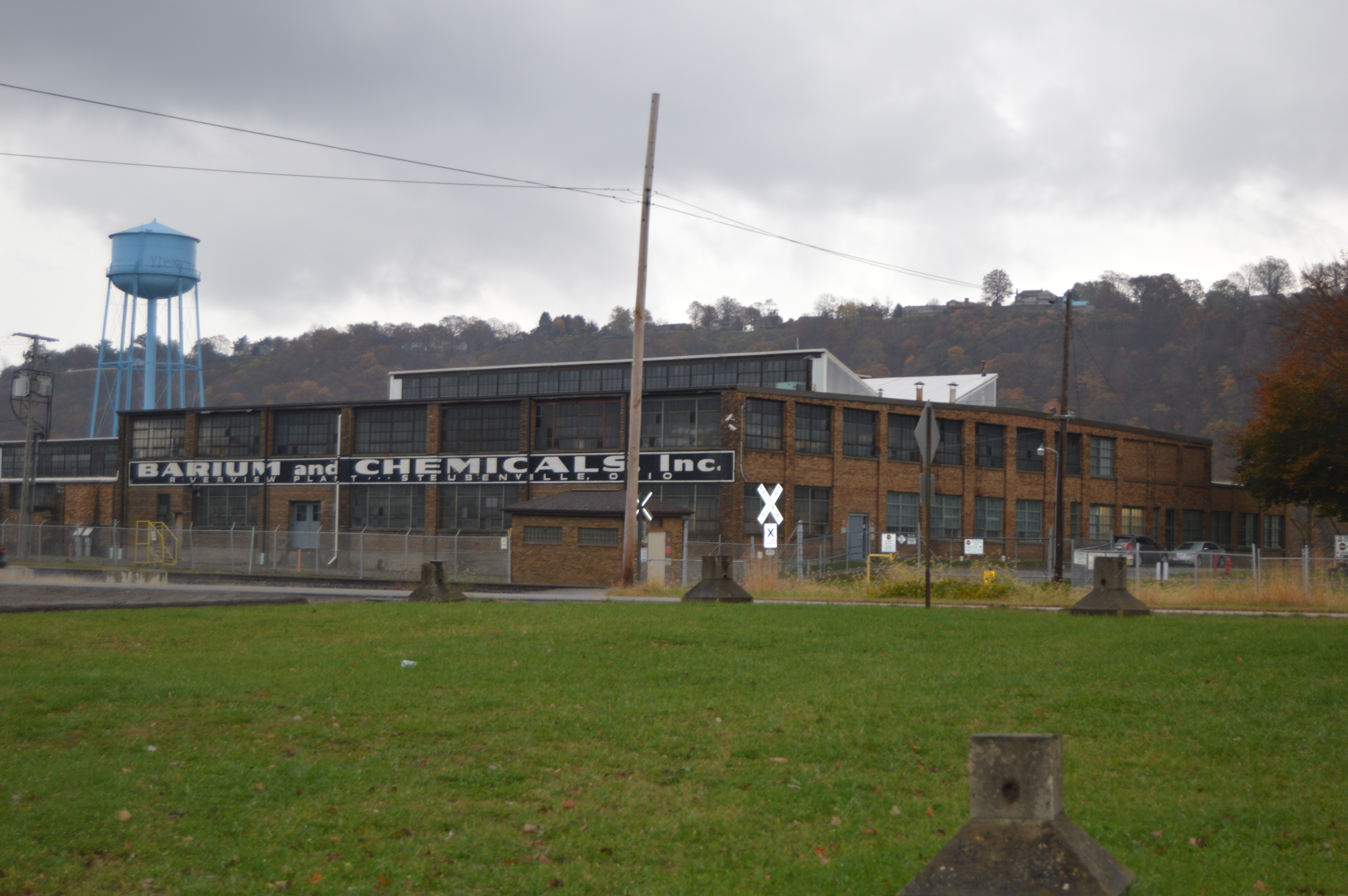 Overview of the Steubenville Pottery Company Buildings, located on Old State Route 7 in the Pottery Addition of Steubenville, Ohio, United States. The complex (now a manufacturer of barium, strontium, and calcium chemical compounds) is listed on the National Register of Historic Places.